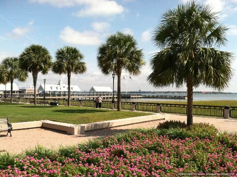 Waterfront Park is one of the most popular parks in Charleston, SC.